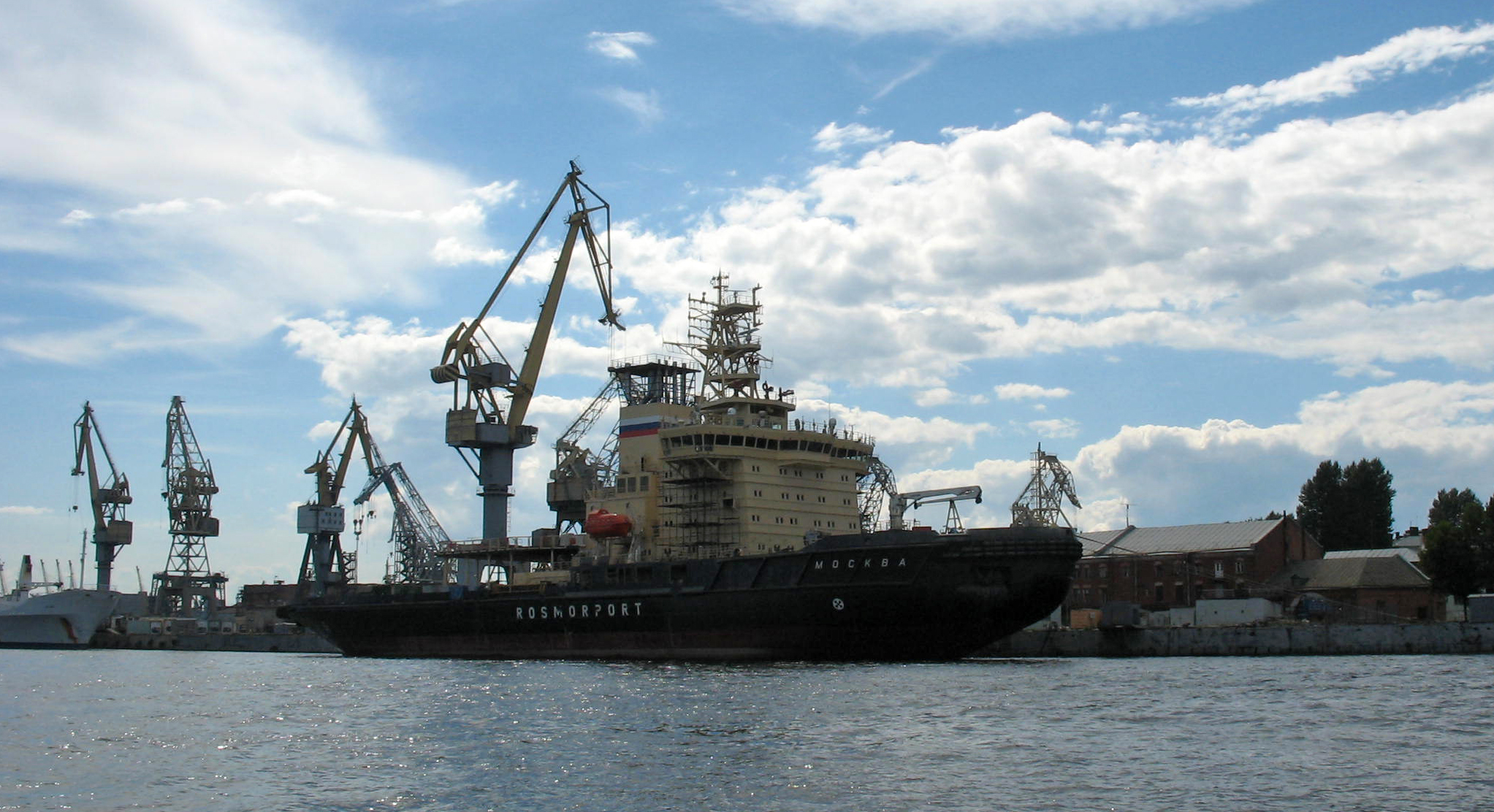 Building of diesel ice breaker "Moscow"